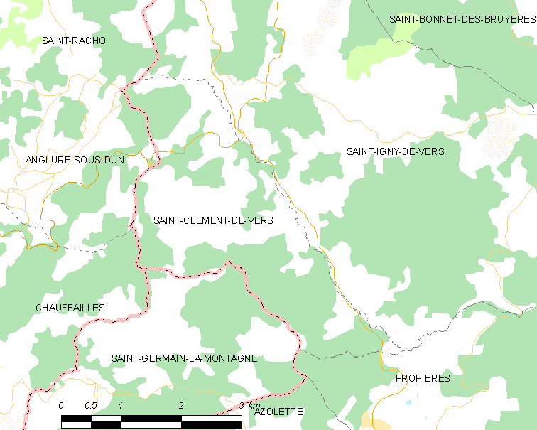 Map of French municipality